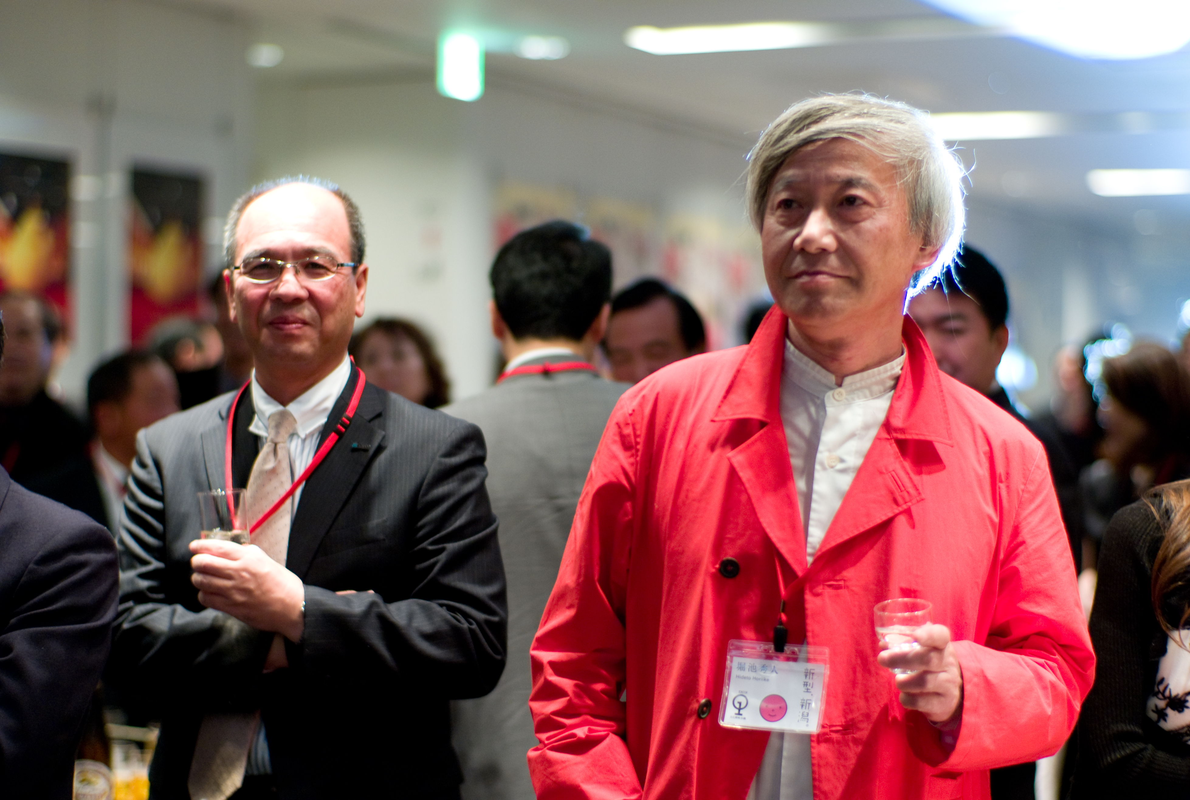 Hideto is a well-known Japanese architect.